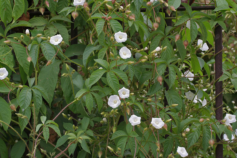 Merremia aegyptia in Hyderabad, India.